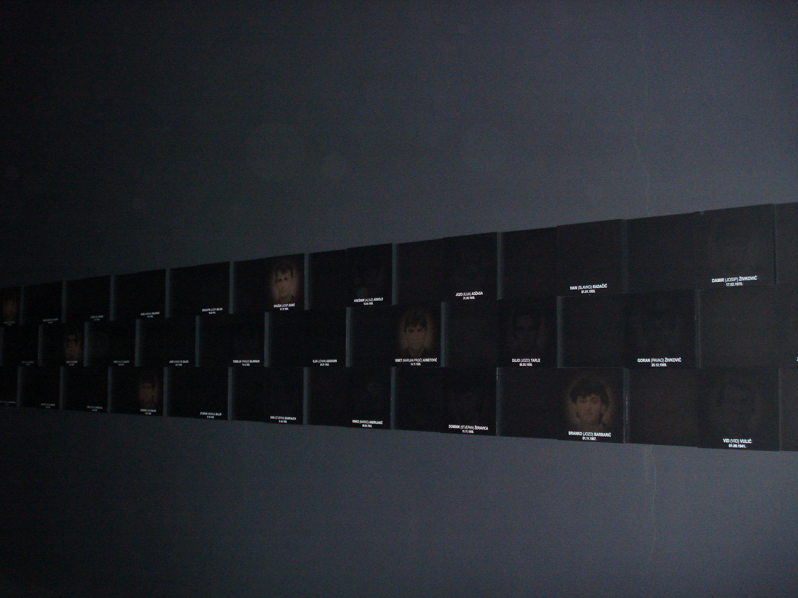 Ovčara memorial near Vukovar. Photos of victims who died in Ovčara during JNA's invasion of Vukovar 1991.